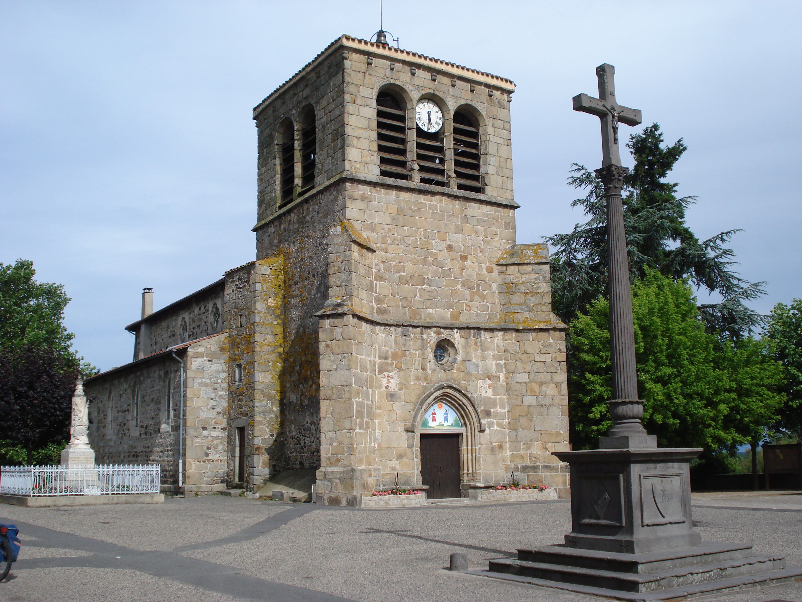 St.Etienne-le-Molard (Loire, Fr), church and war memorial.